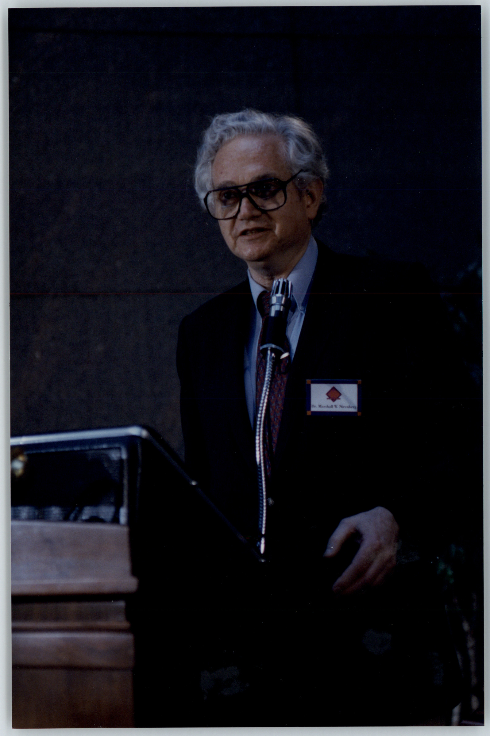 Nirenberg, a biologist deciphered the genetic code of life, earning a Nobel Prize for his achievement. Marshall Nirenberg spent his career at the National Institutes of Health.